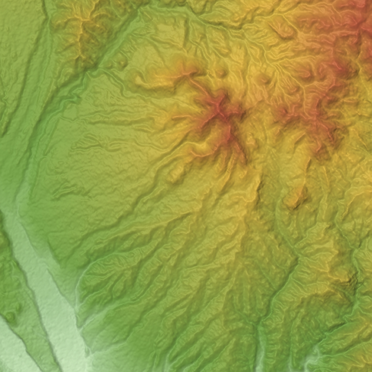 Kayagatake Volcano (left) and Kurofuji Volcano Group (right) in Yamanashi Prefecture, Honshu, Japan.